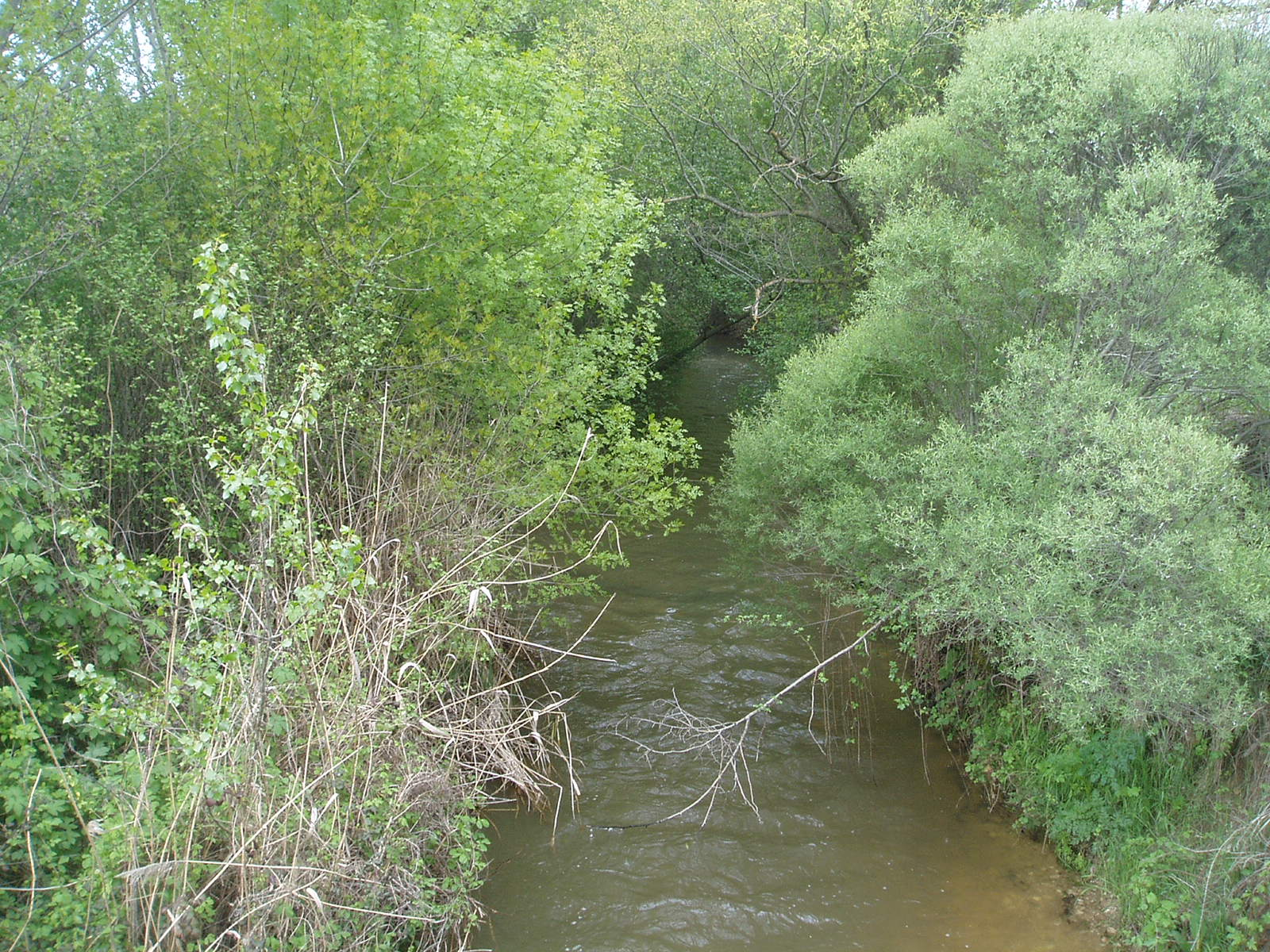 The Dulce river to its step along the Nature reserve of the Ravine of the Dulce river, in Pelegrina, Guadalajara.